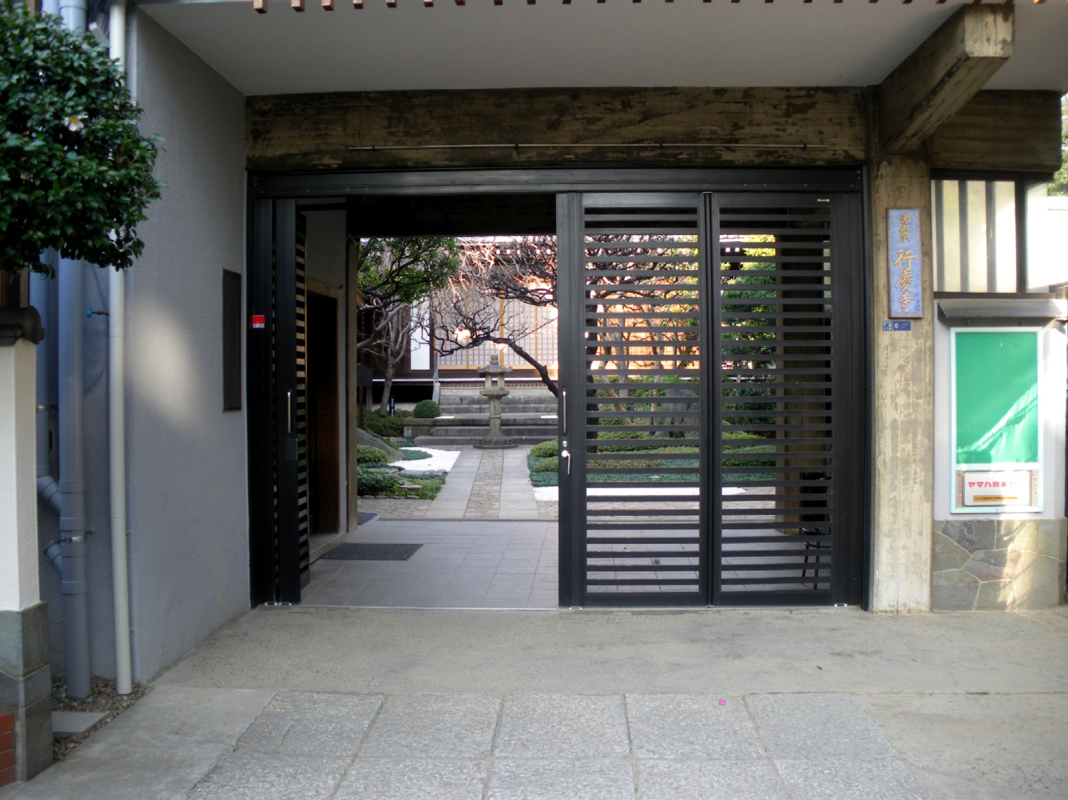 A photo of Gyokei-ji(temple),Togoshi Shinagawa-ku,Tokyo,Japan.